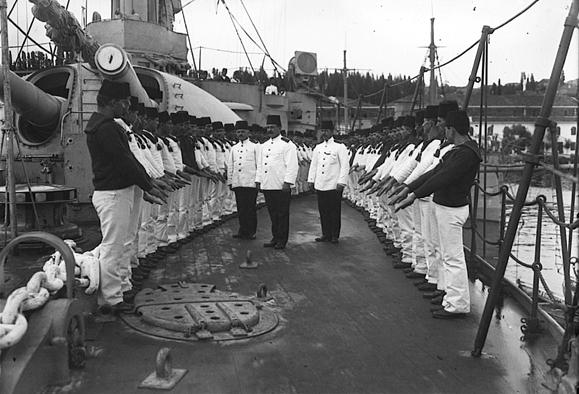 The Ottoman battleship Barbaros Hayreddin or Turgut Reis. (Original text: Turquie-Marine inspection des mains.)